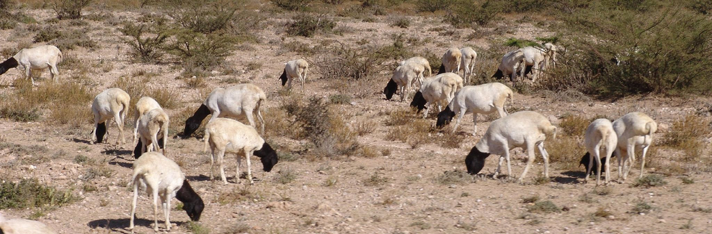 A flock of sheep near Boorama. Image taken by Charles Fred on flickr. The creator has granted GFDL licensing and permission for use in the wikimedia project.